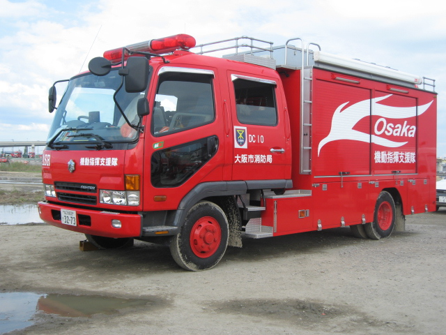 Osaka Municipal Fire Department. Active Command Support Car.